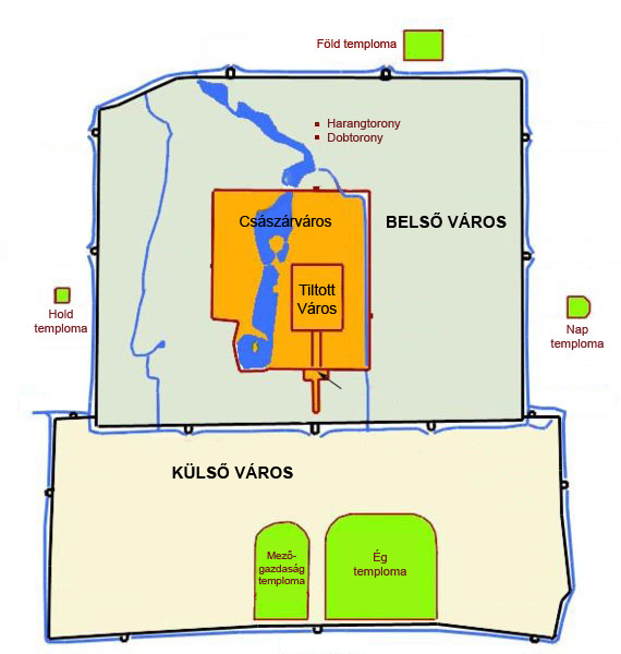 Map of Beijing city wall